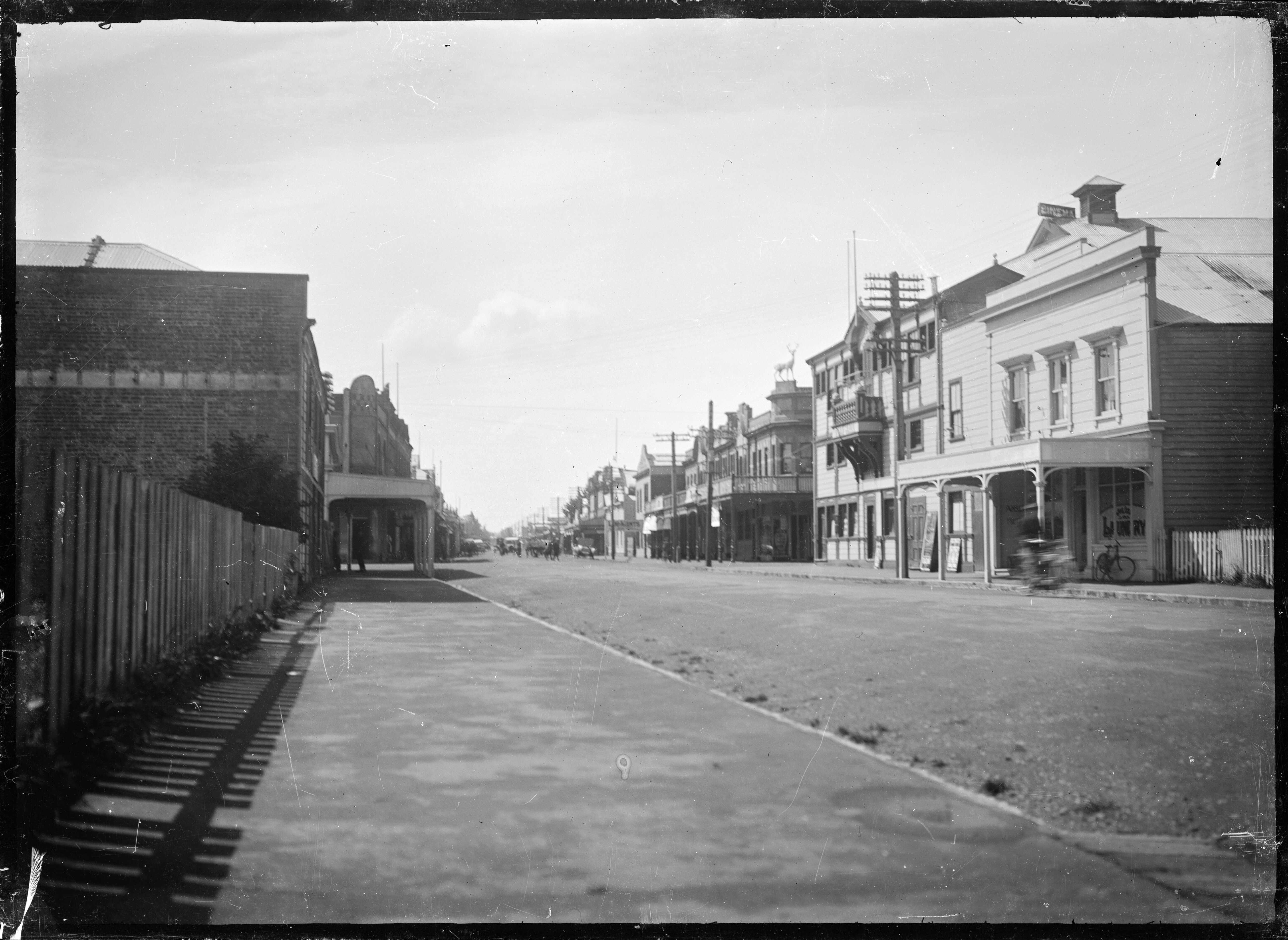 View of the main street in Marton. Photograph taken by Albert Percy Godber circa 1924.